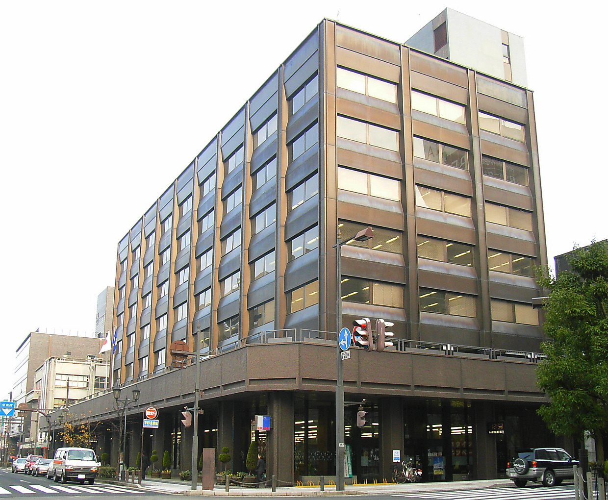 Yamagata Bank's main office (Bank of Japan Yamagata local office). Yamagata, Yamagata prefecture, Japan.